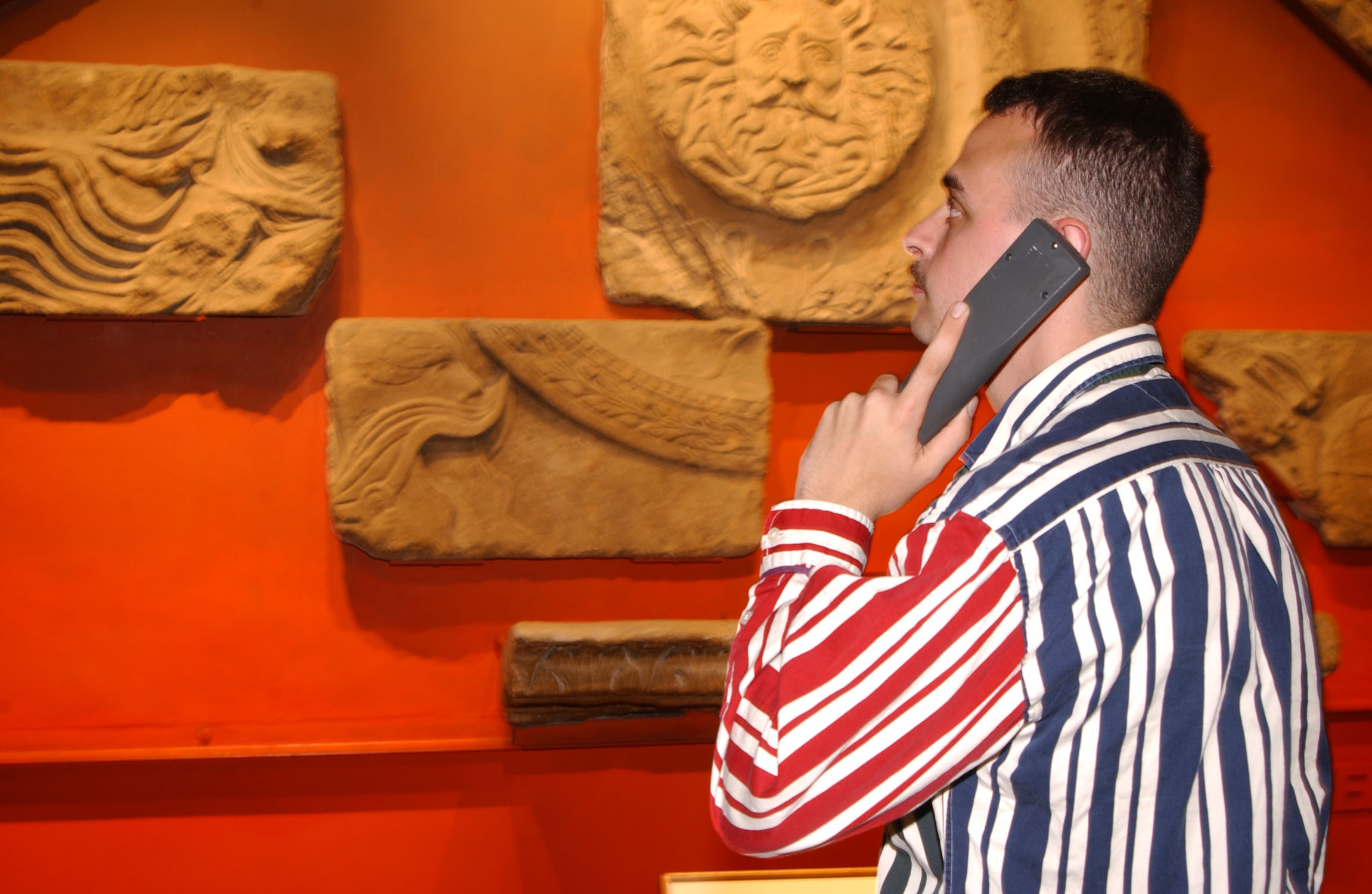 Portsmouth, England (May 10, 2003) -- During a recent port visit to Portsmouth, a Sailor listens to an audio tour-guide providing him information about his surroundings on a ship sponsored tour. The USS Harry S. Truman (CVN 75) and Carrier Air Wing Three (CVW-3) are returning from deployment in support of Operation Iraqi Freedom, the multi-national coalition effort to liberate the Iraqi people, eliminate Iraq's weapons of mass destruction and end the regime of Saddam Hussein. U.S. Navy photo by Photographer's Mate Airman Justin S. Osborne. (RELEASED)